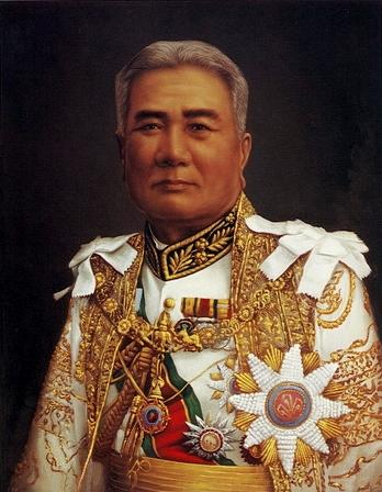 King Kaew Naowarat, last King of Lanna